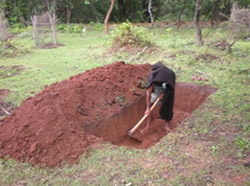 Promotion of community based rainwater harvesting